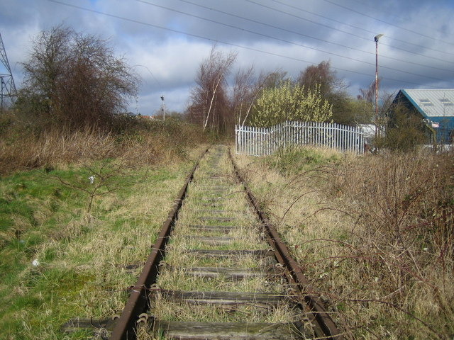 Dunstable: Disused railway near the former Dunstable Town station. Viewed looking northwards towards the site of the former Dunstable Town railway station, which was demolished when the Luton to Leighton Buzzard line closed for passenger traffic in 1965, the trackbed may be utilized by the proposed bus-operated Luton - Dunstable Translink system. Translink's website is here